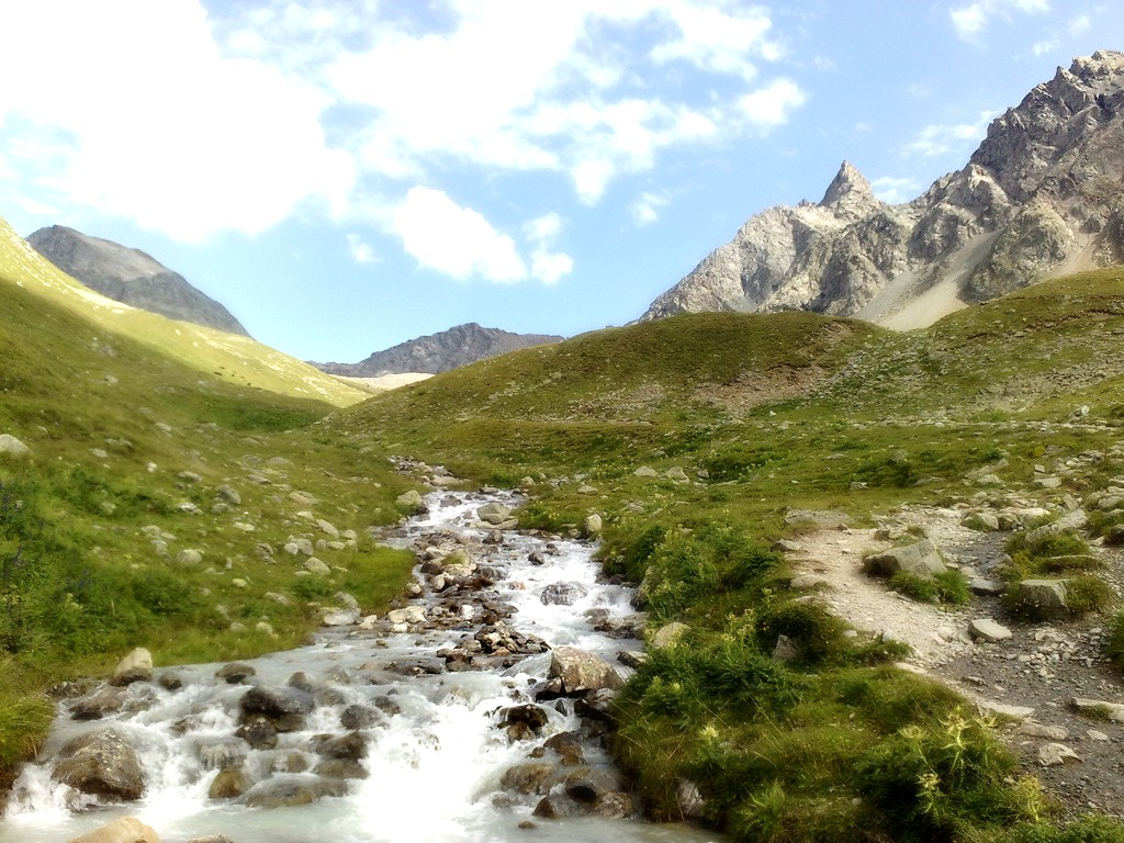 Val Muragl, Engadin